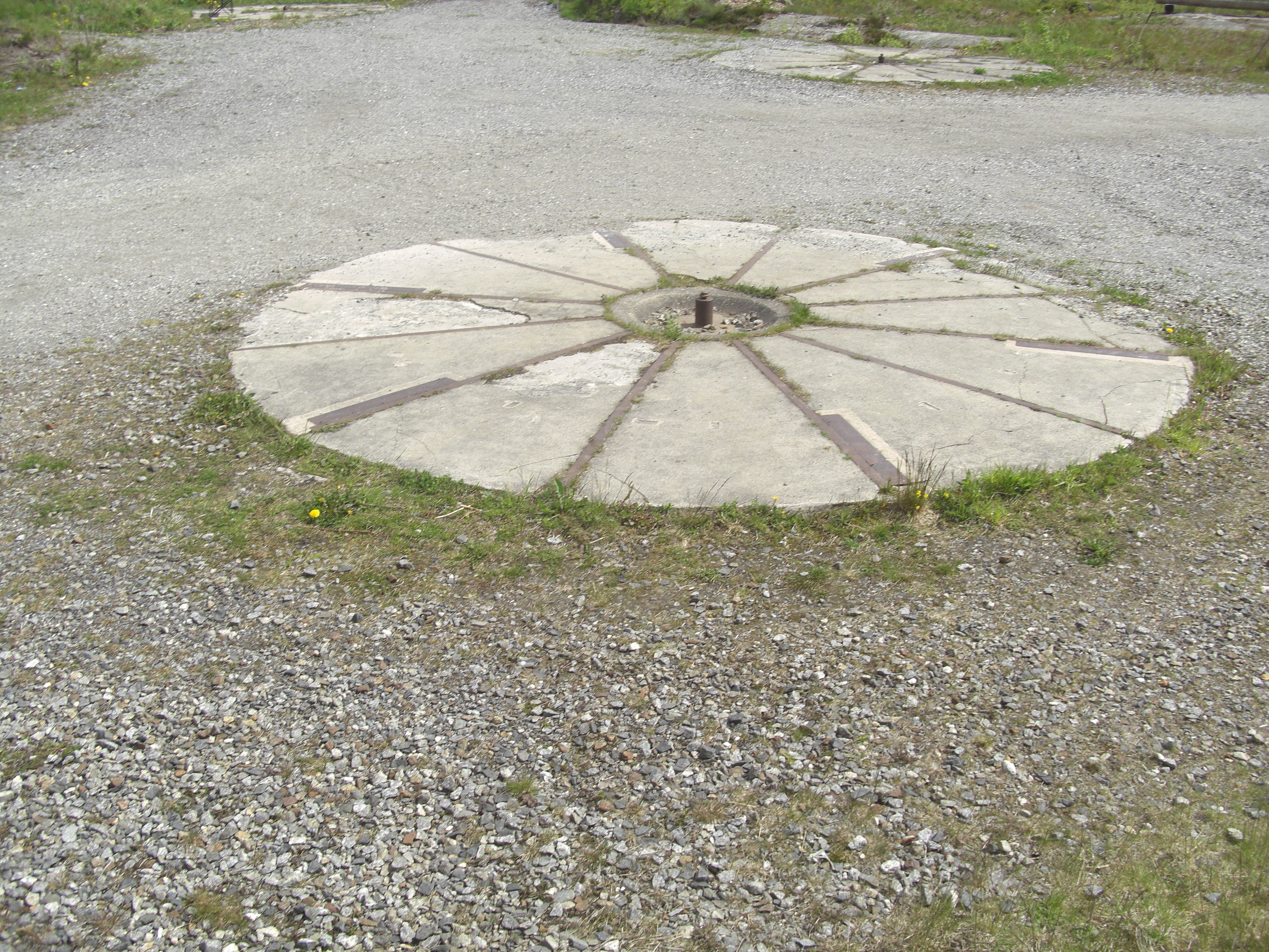 Krupp platform